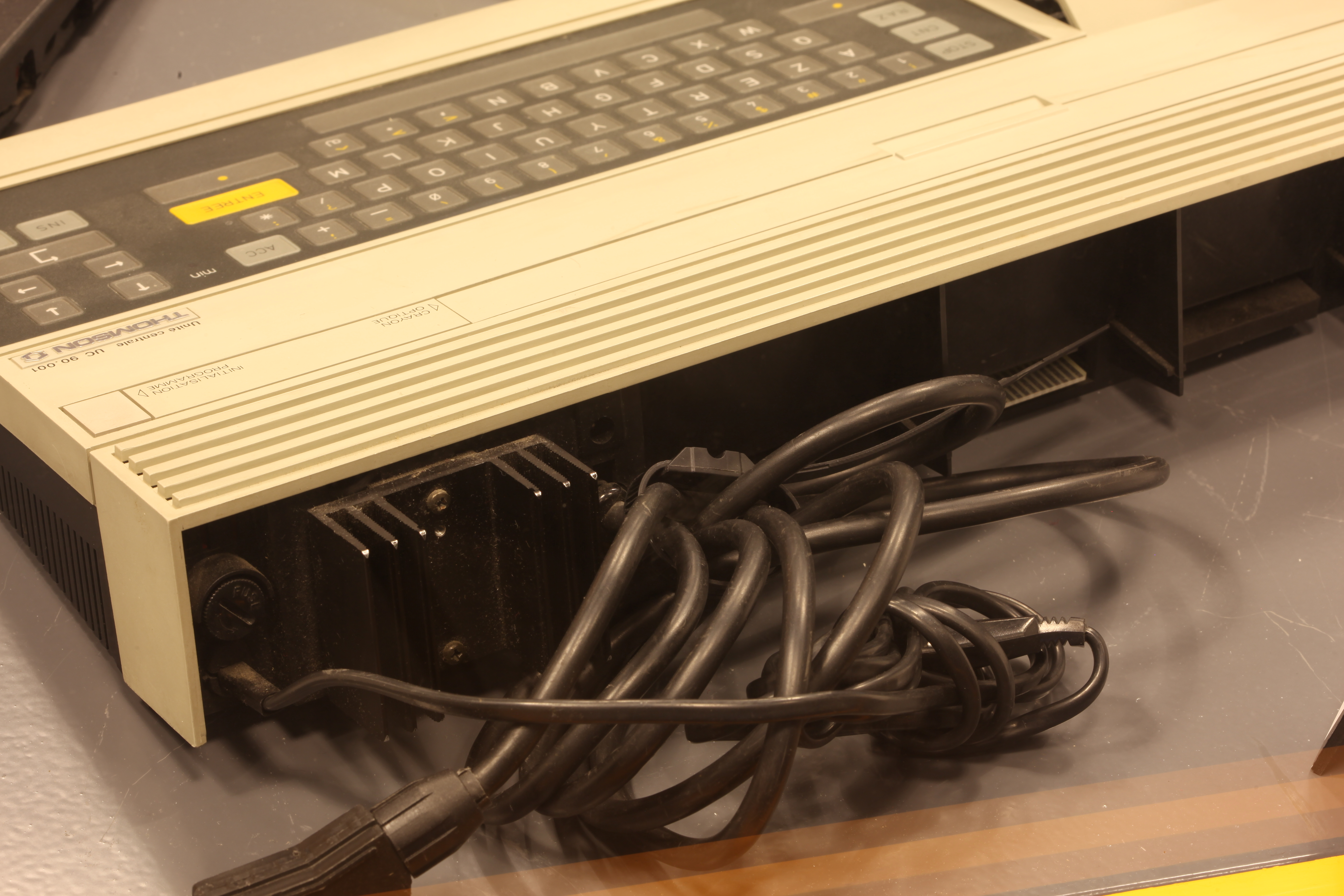 Thomson TO7. On display at the Cité des Sciences et de l'Industrie